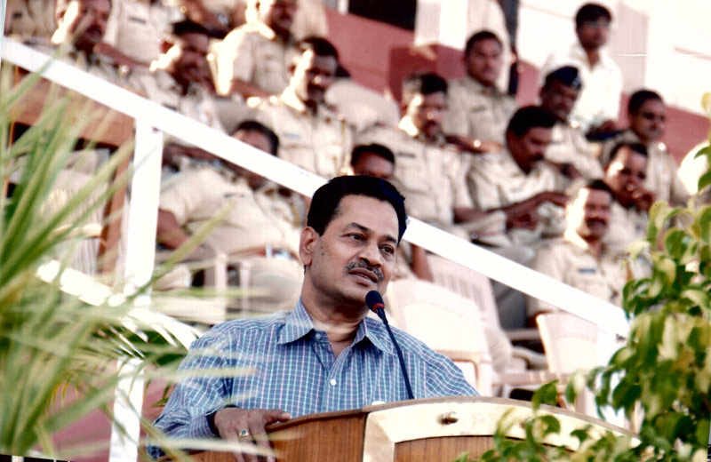 District Collector